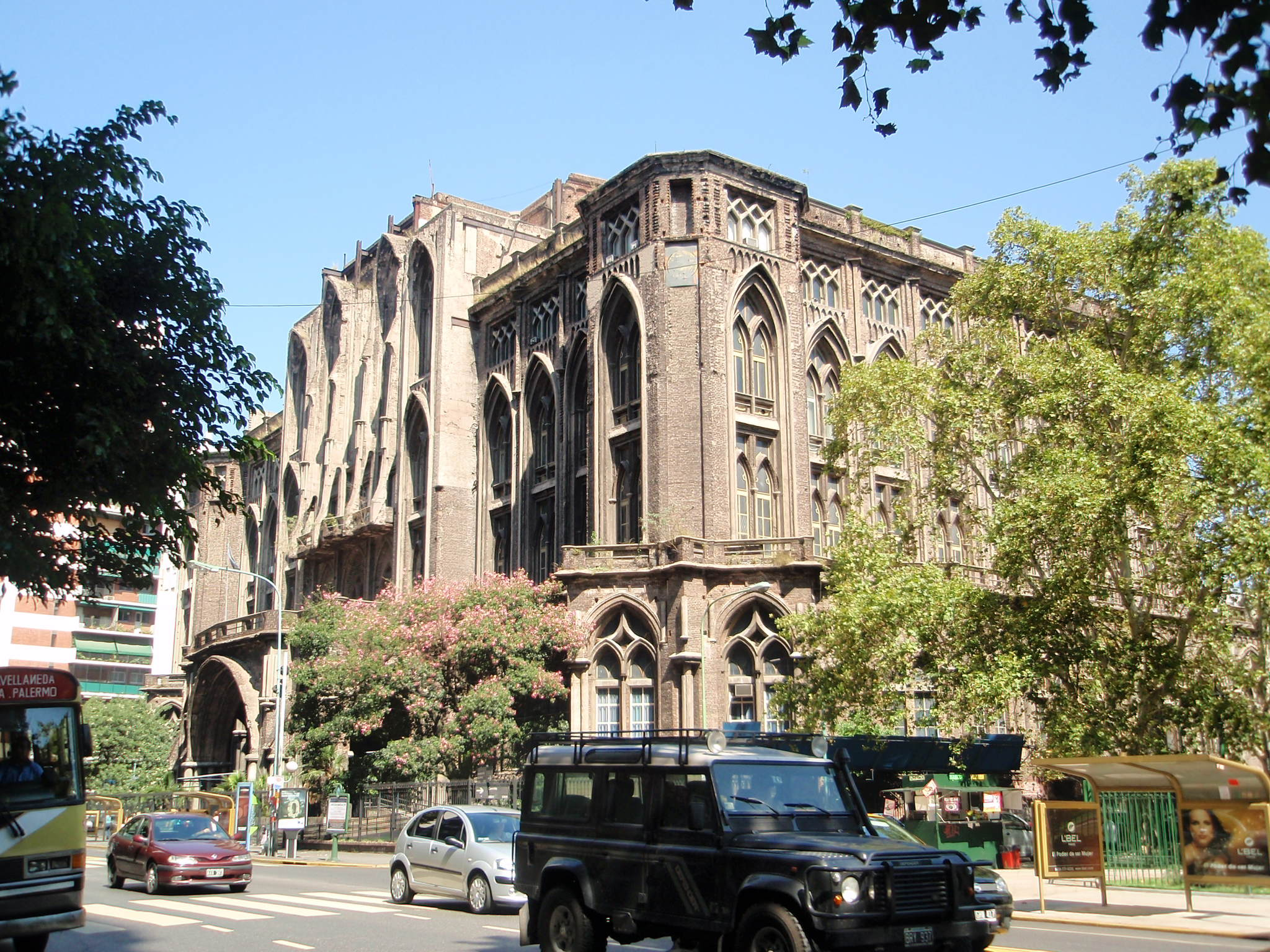 Facultad de Ingeniería / U.B.A. Sede Las Heras